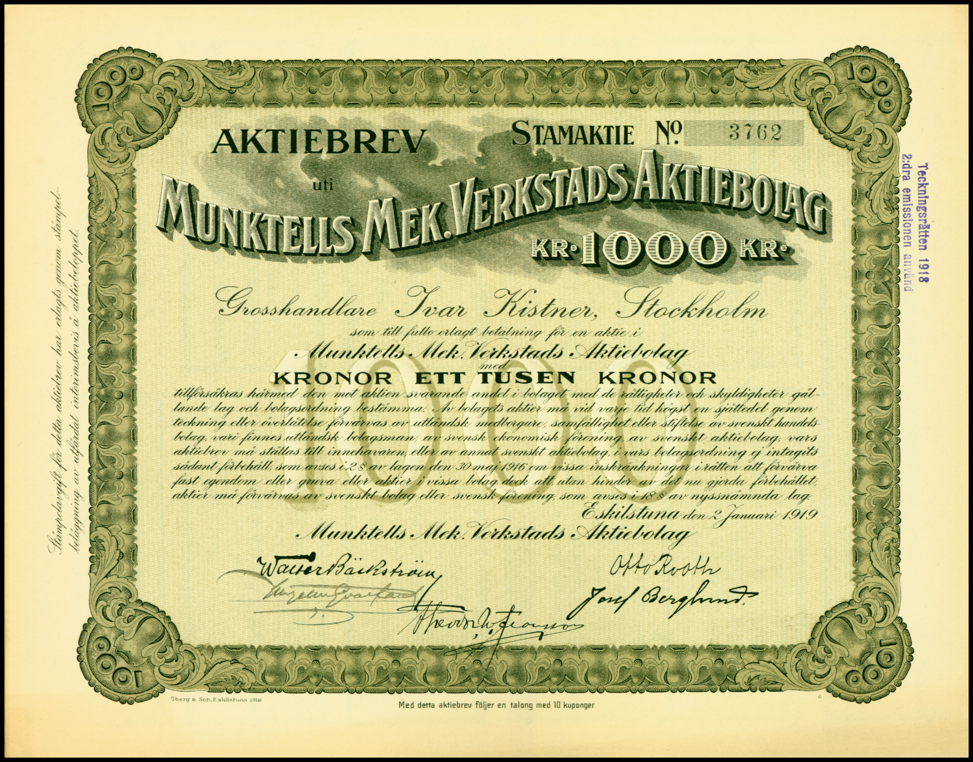 Share of the Munktells Mek. Verkstads AB, issued 2. January 1919